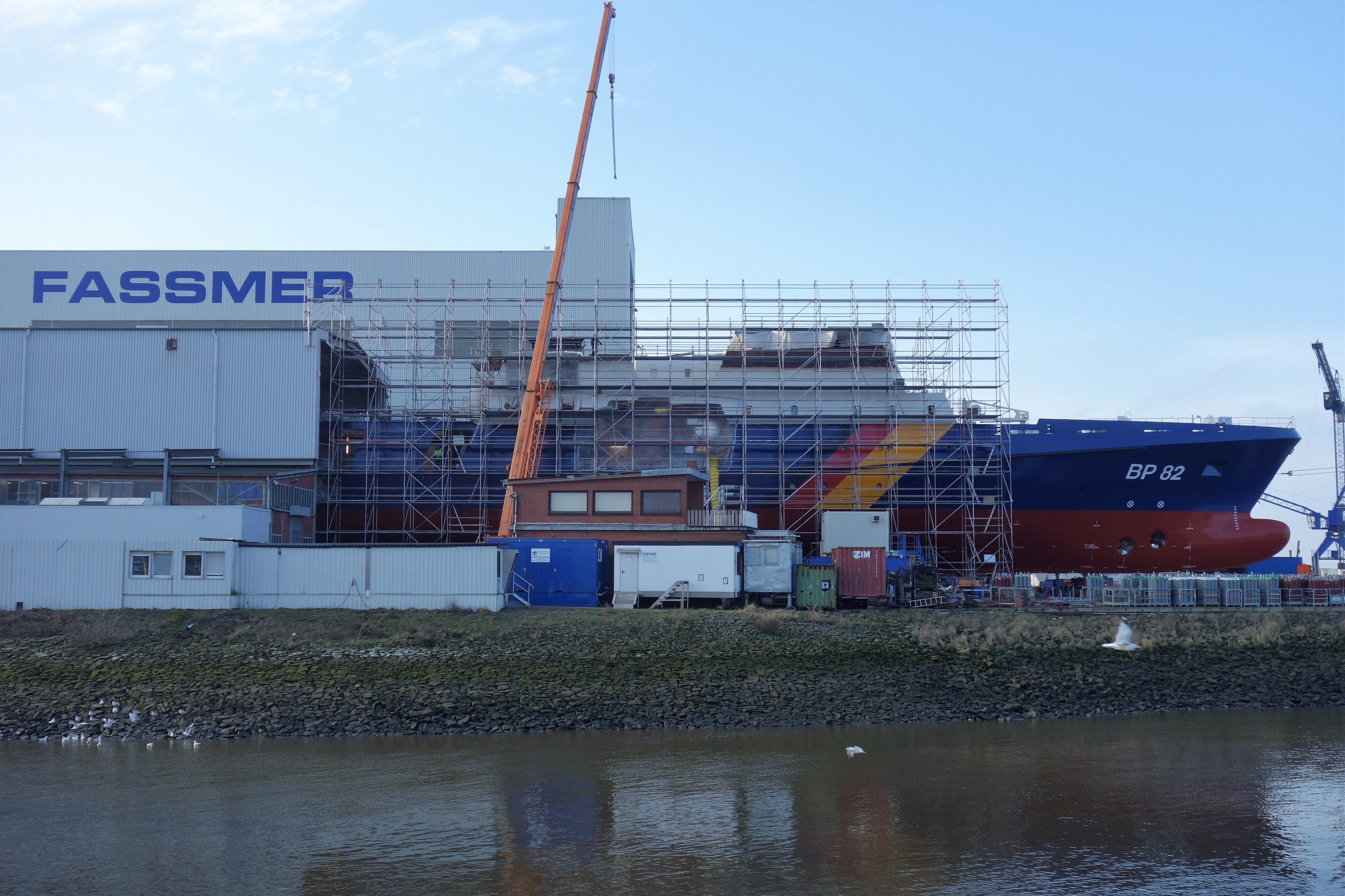 Bamberg under construction at Fassmer shipyard